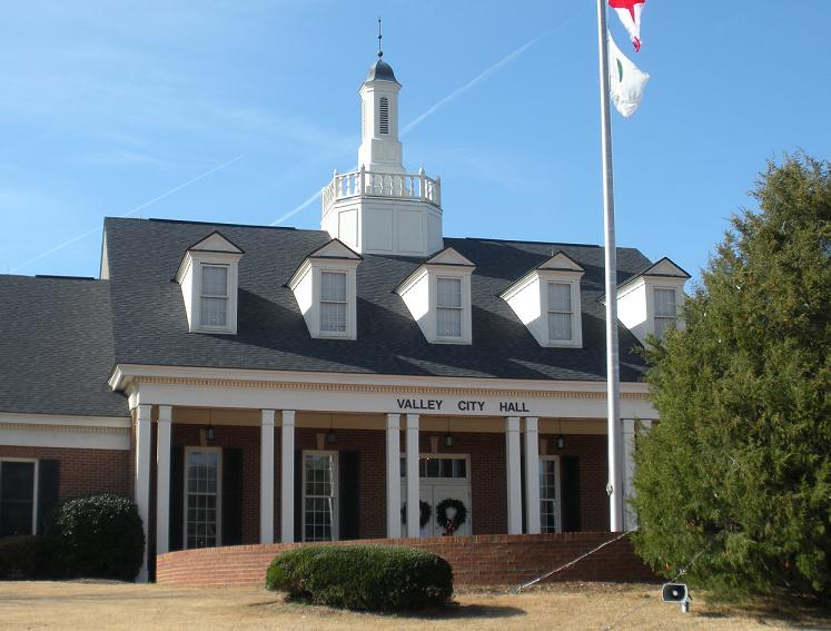 This is a photo of Valley City Hall in Valley, Alabama